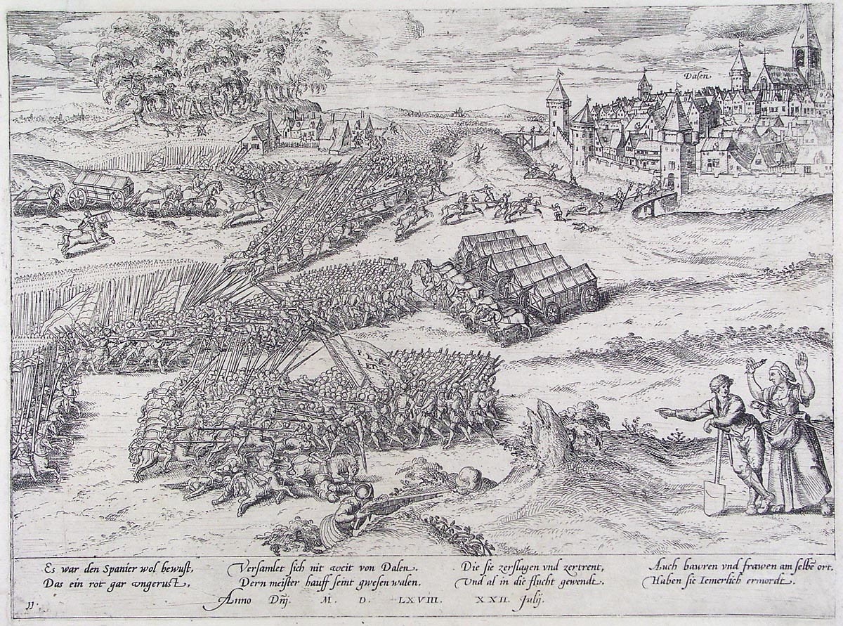 The siege before Dalen, july 22 1568. Etching. Rotterdam, Prentenkabinet Museum Boijmans Van Beuningen (inv.no. BdH 19761 (PK)).